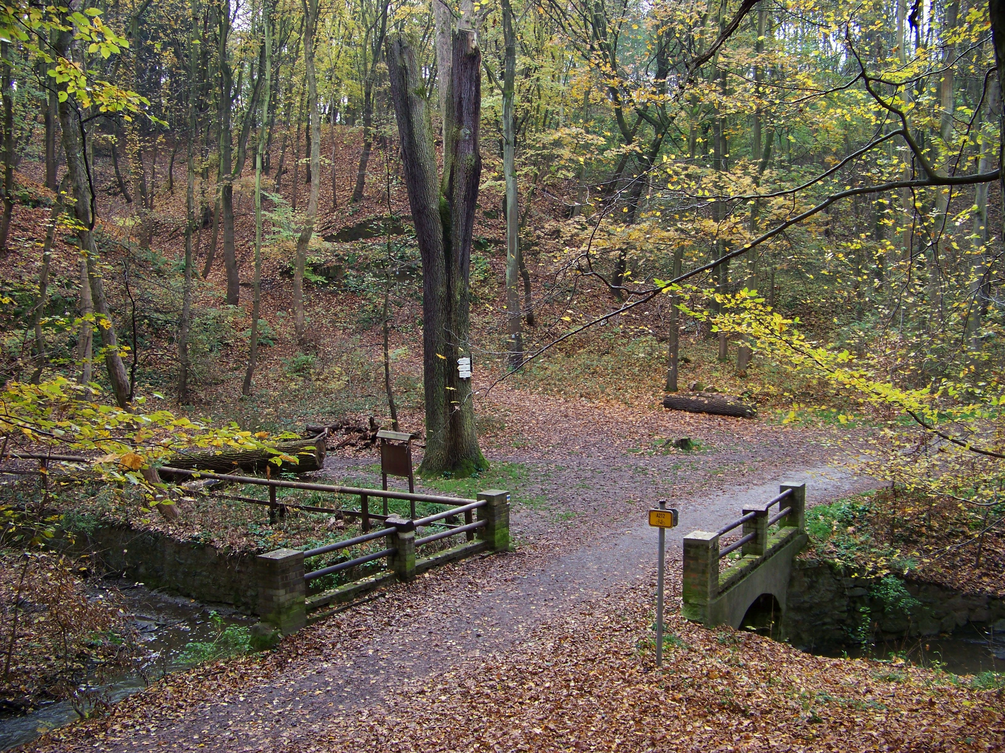 Prague-Kunratice, Czech Republic. Kunratice Forest, a bridge over the Kunratice Creek.